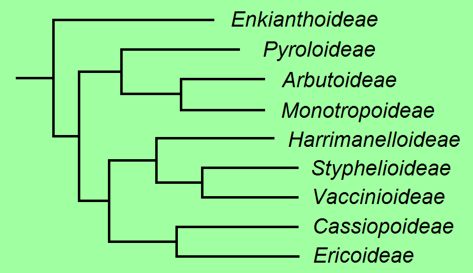 Phylogeny of the subfamilies of the Ericaceae